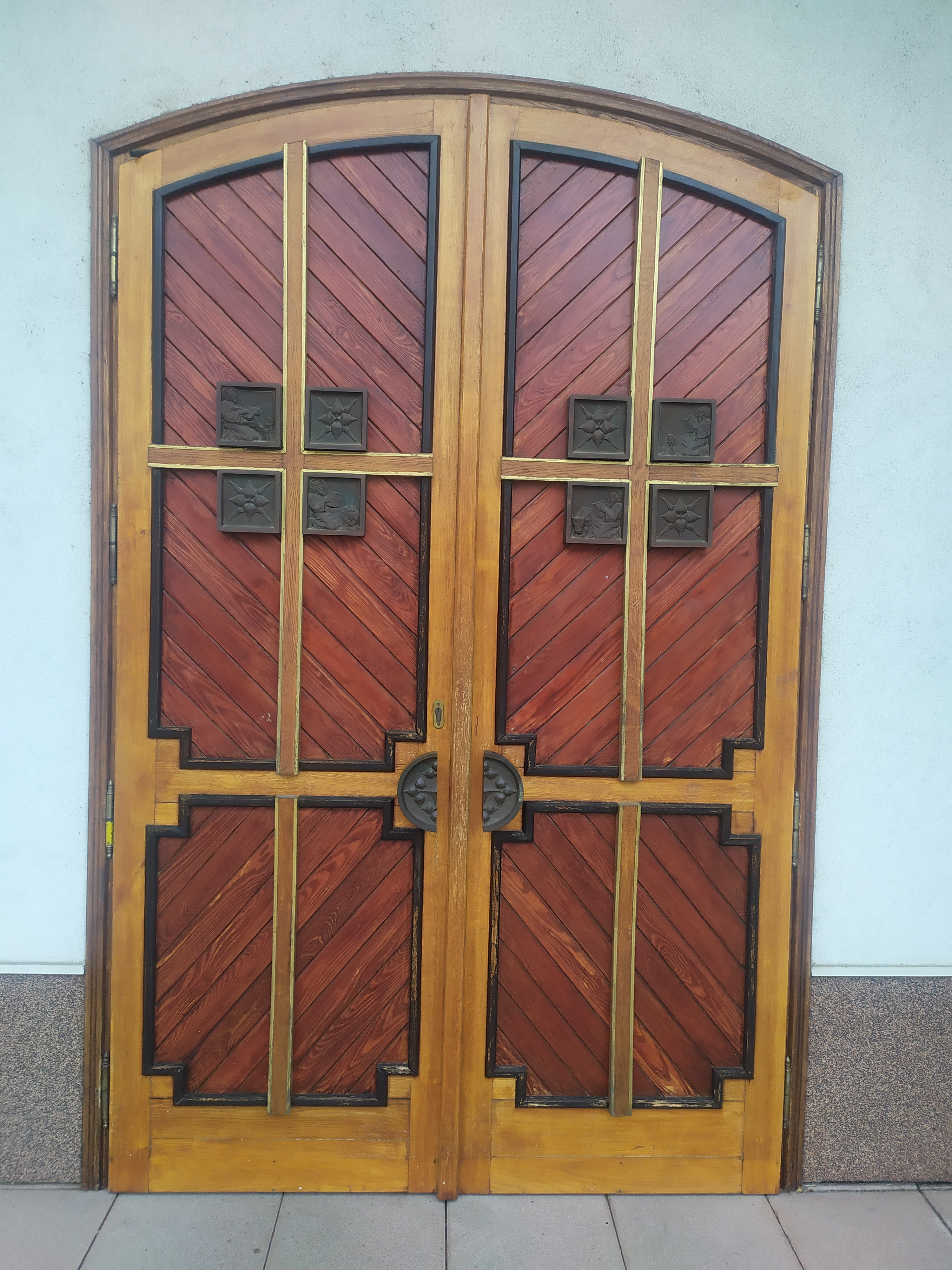 Doors of the church of St. Adalbert in Otrokovice